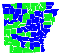 GFDL-self